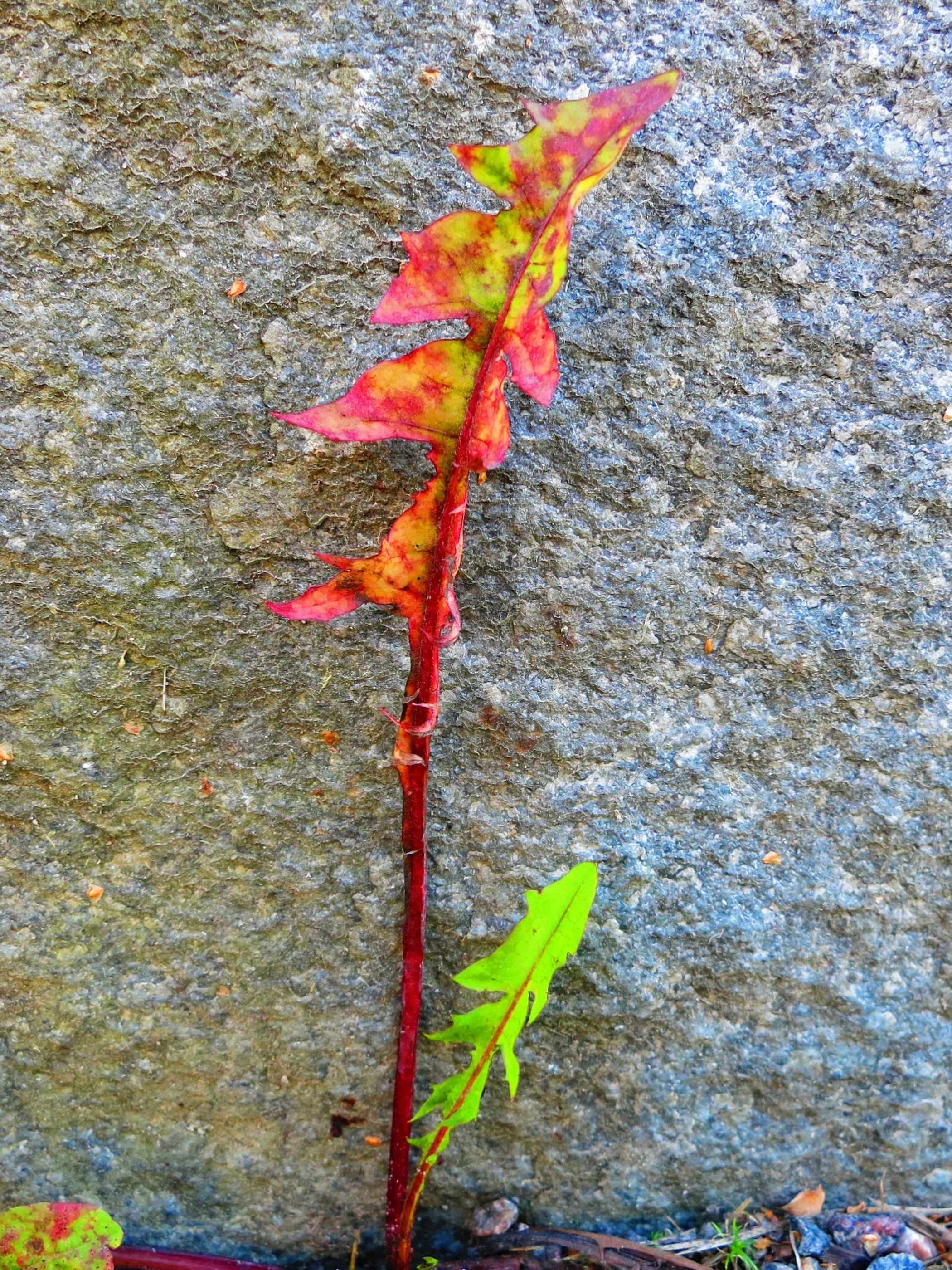 Dandelion (Taraxacum sp.) leaves in autumn (Hyvinkää, Finland)